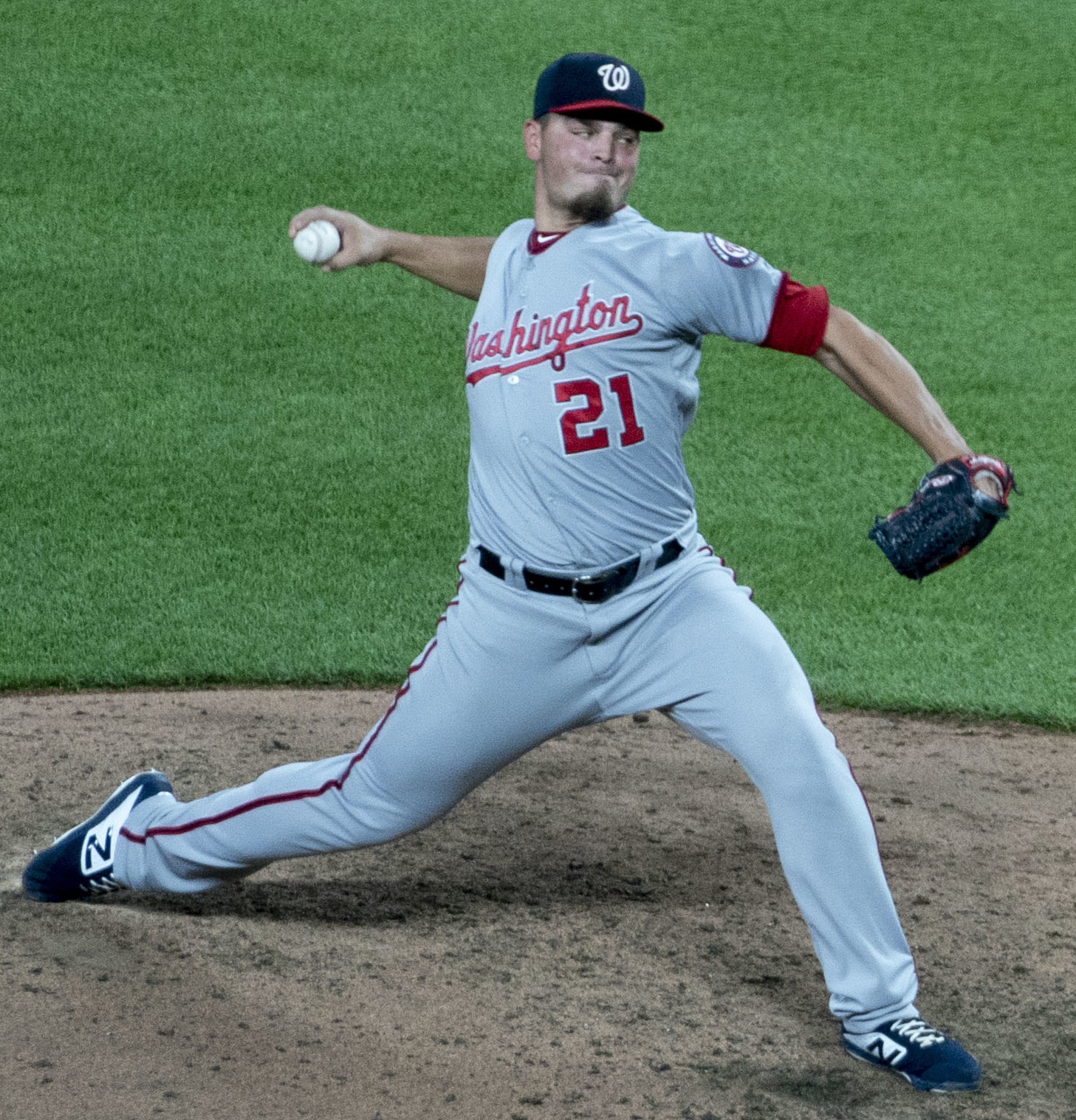 Tanner Rainey delivers a pitch for the Washington Nationals during a 2019 game at Camden Yards in Baltimore